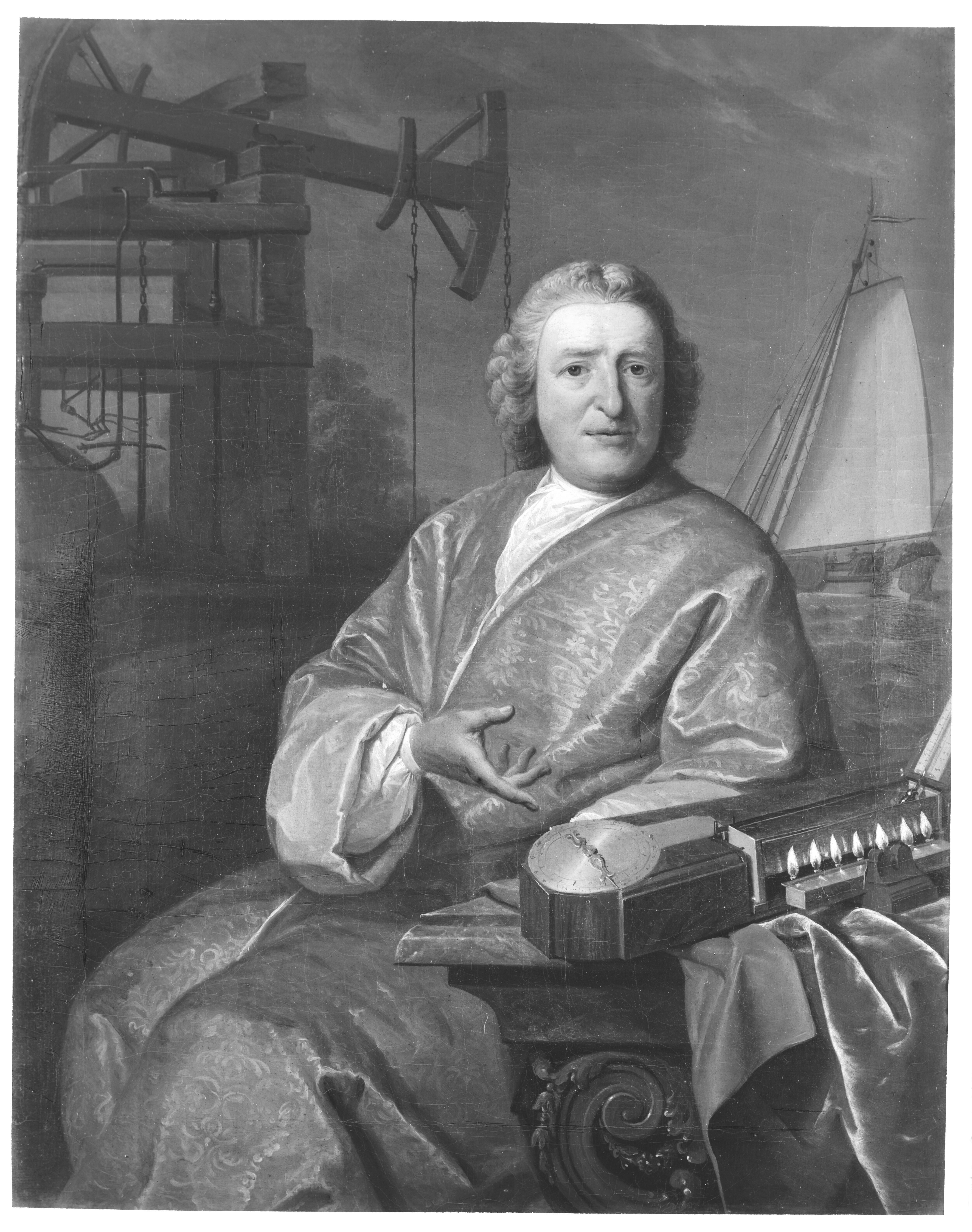 Old photo of now lost portrait of the Rotterdam inventor and society "Batavian Society for Experimental Philosophy" founder Steven Hoogendijk. He is portrayed with his collection. This painting was destroyed along with the society's building in the WWII bombing of Rotterdam.